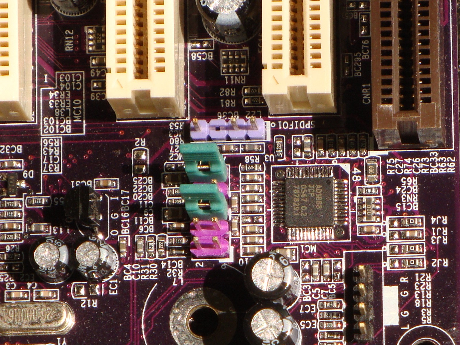 AlalogDevices AD1888 AC'97 codec chip.